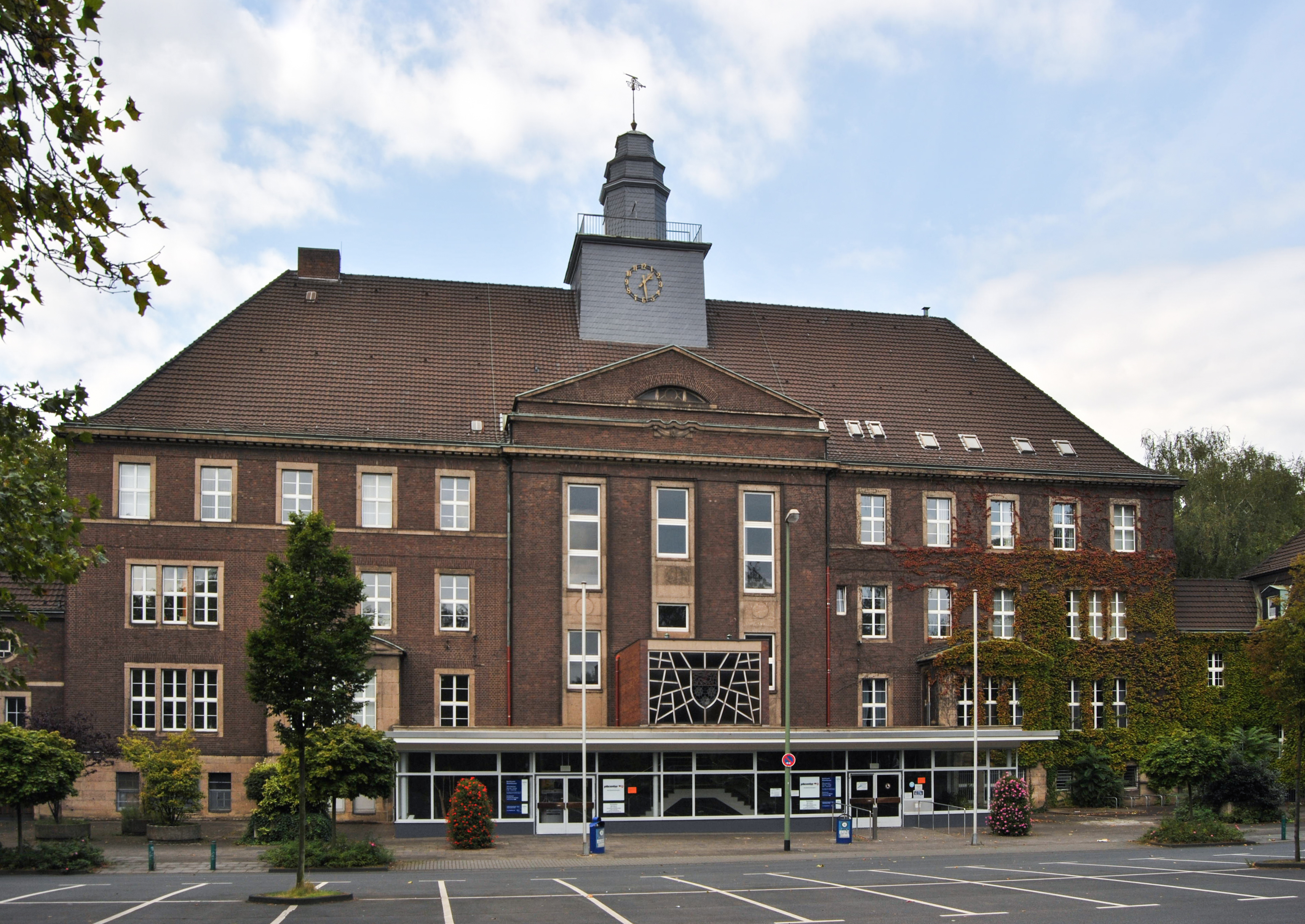 Duisburg (North Rhine-Westphalia, Germany) – borough Rheinhausen, district Rheinhausen-Mitte – district office This image shows a heritage building in Germany, located in the North Rhine-Westphalian city Duisburg (no. 540). This photograph was taken with a Nikon D3000